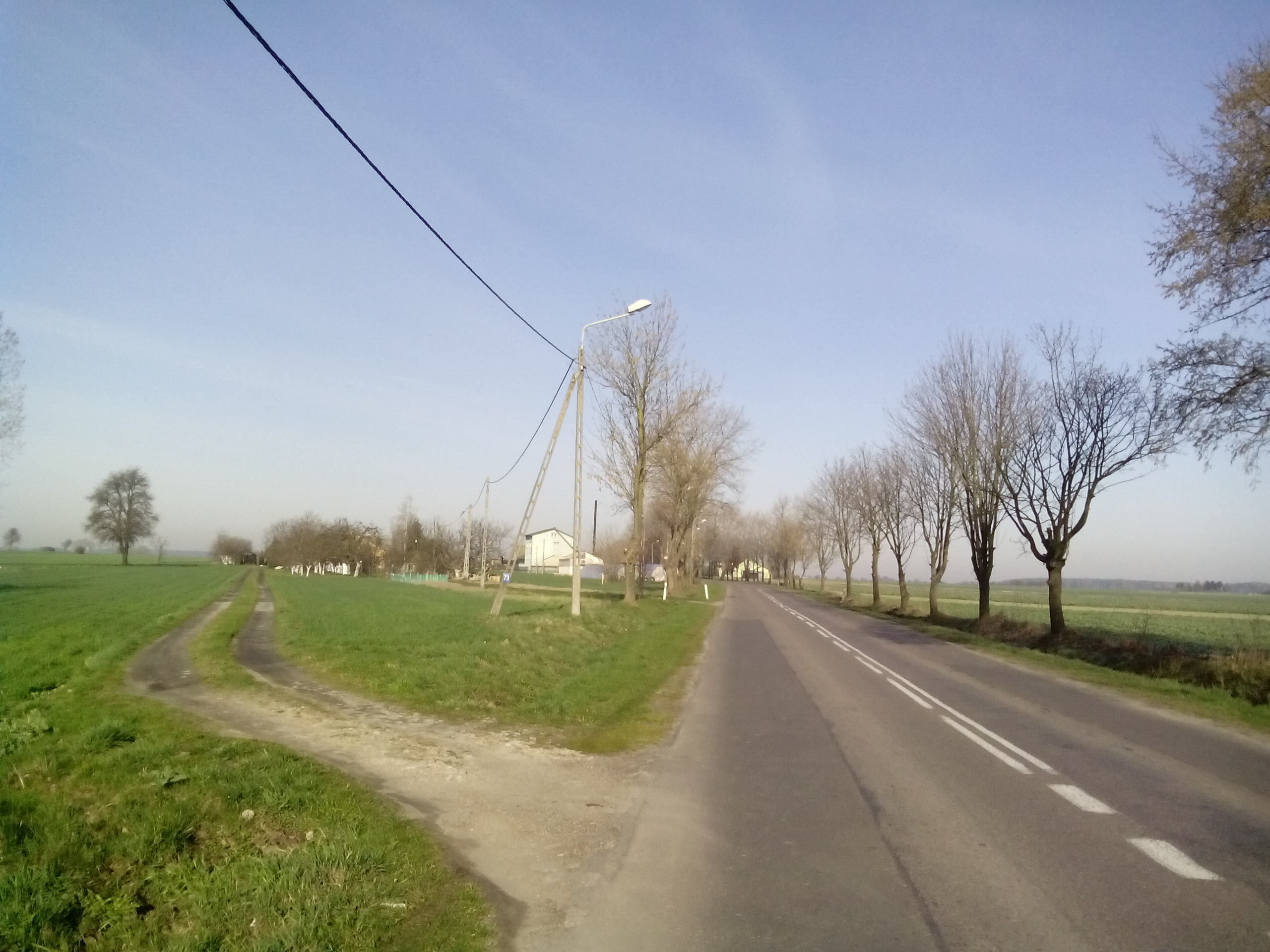 Mosyn forest at the year 2014